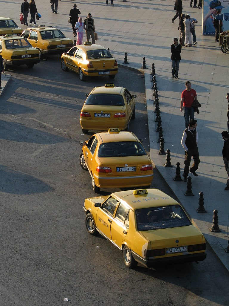 Istanbul taxis